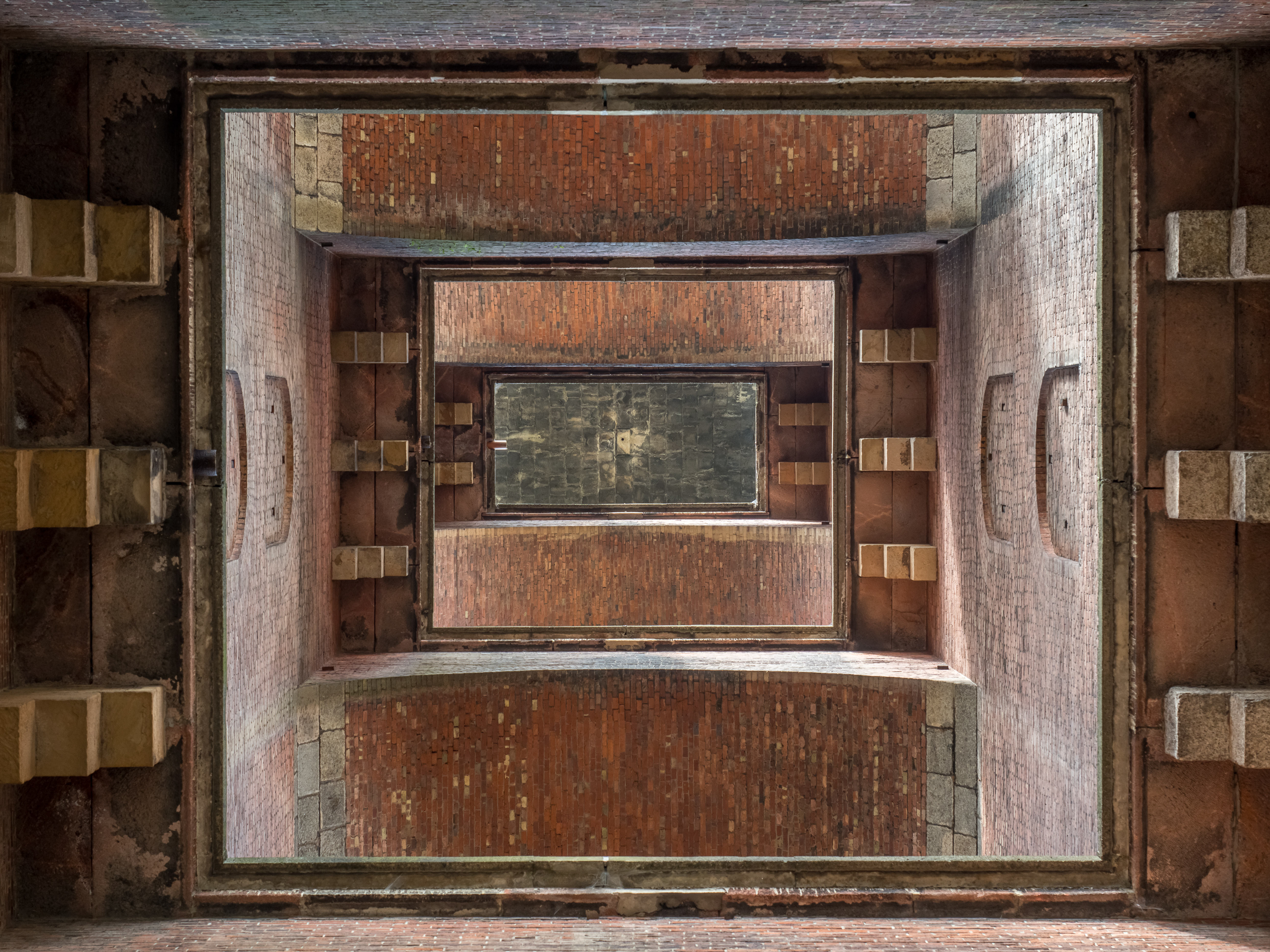 View upwards through the pillars of the Göltzschtal Bridge